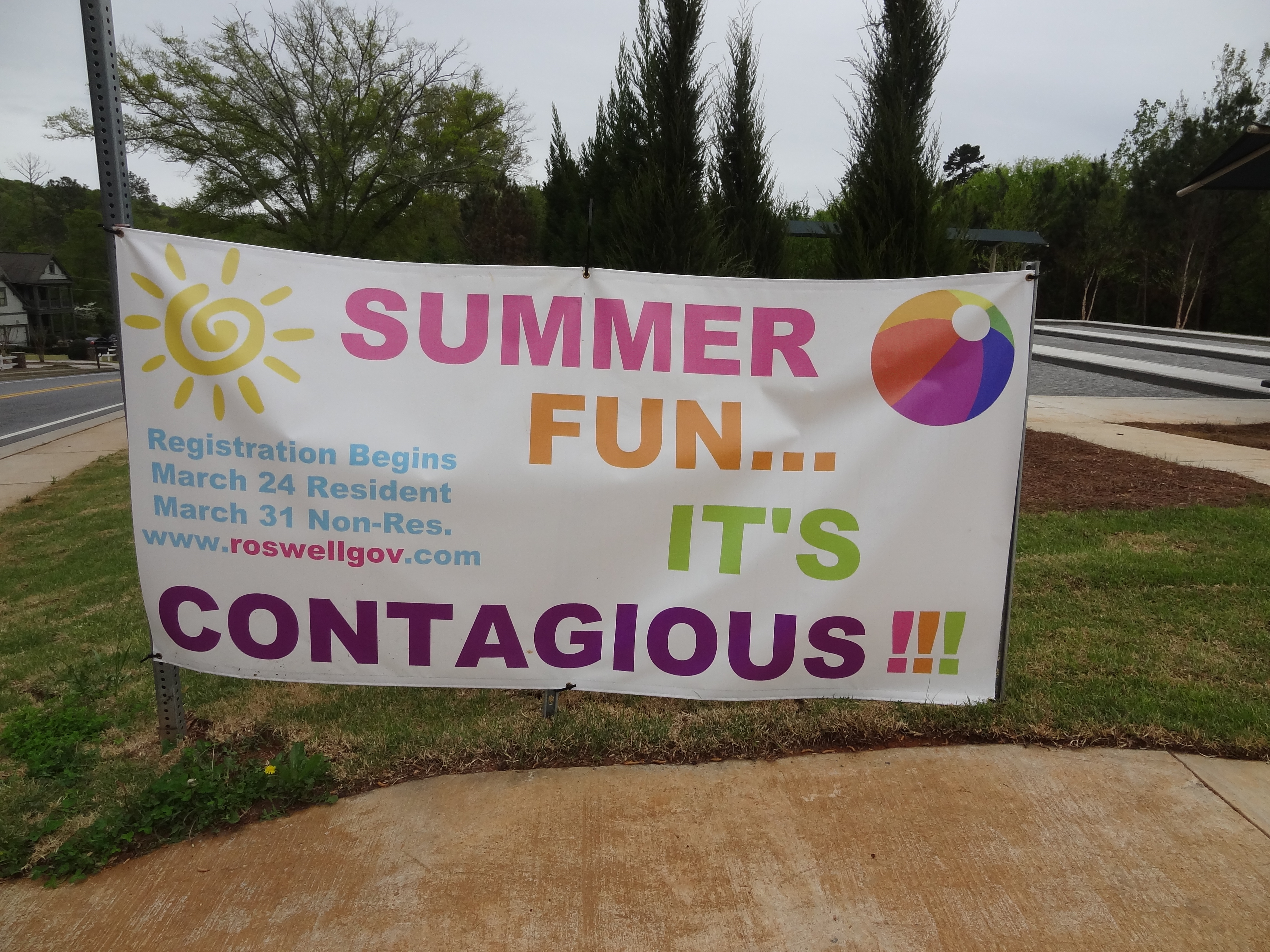 Roswell Rec and Parks Banner, Grimes Bridge Road Extension, Roswell, Georgia, USA